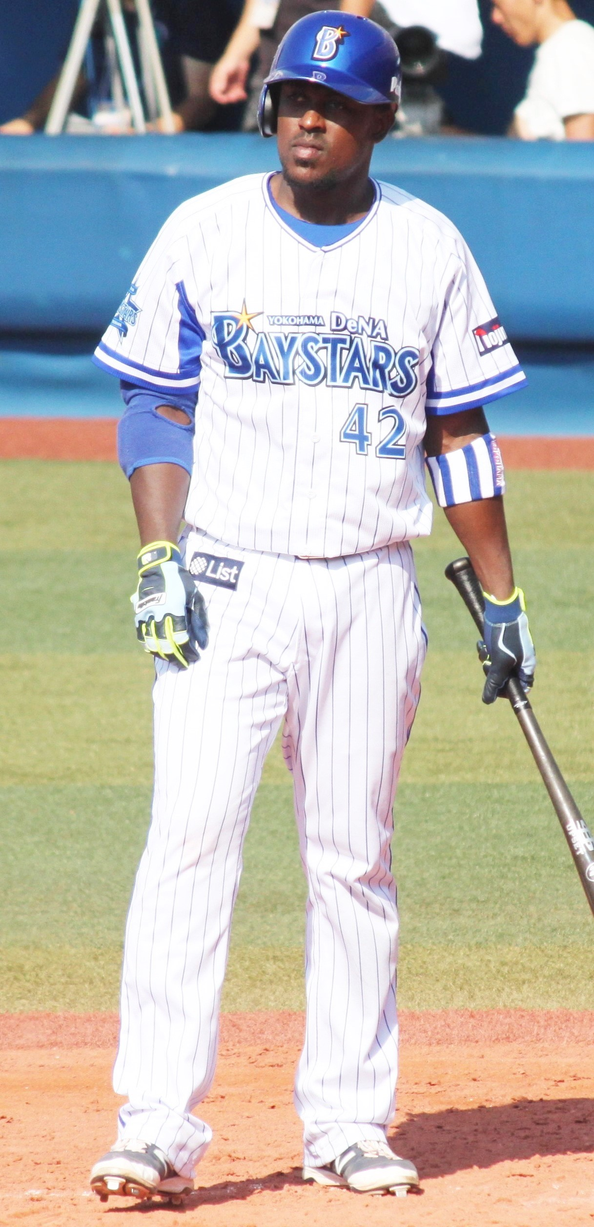 Elián Herrera, infielder of the Yokohama DeNA BayStars, at Yokohama Stadium